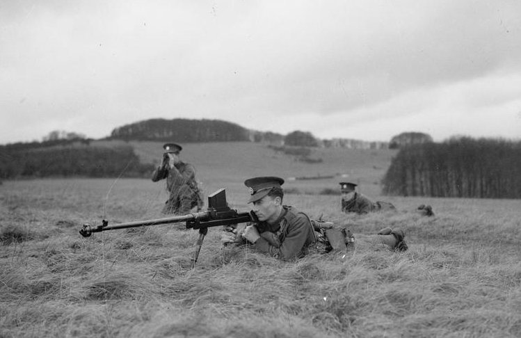 Soldier of The Rifle Brigade prepares to fire a 0.55 inch Boys Anti-tank Rifle during a military exercise.